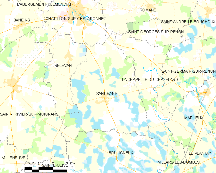 Map of French commune: Sandrans Map commune FR insee code 01393.png